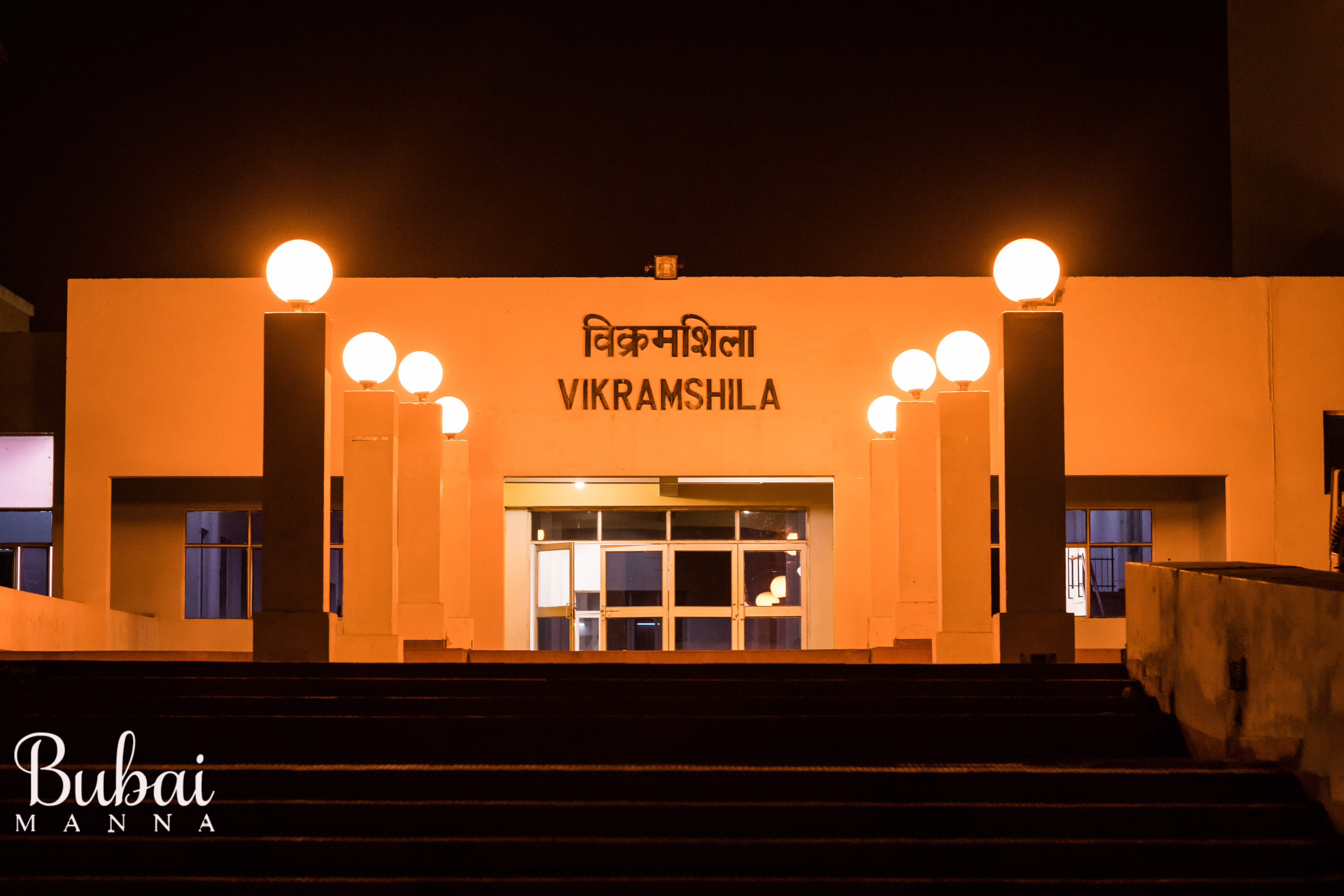 Taken by Bubai Manna